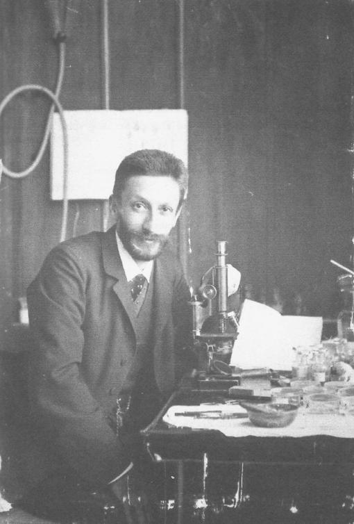 Josef Paneth (1857-1890)